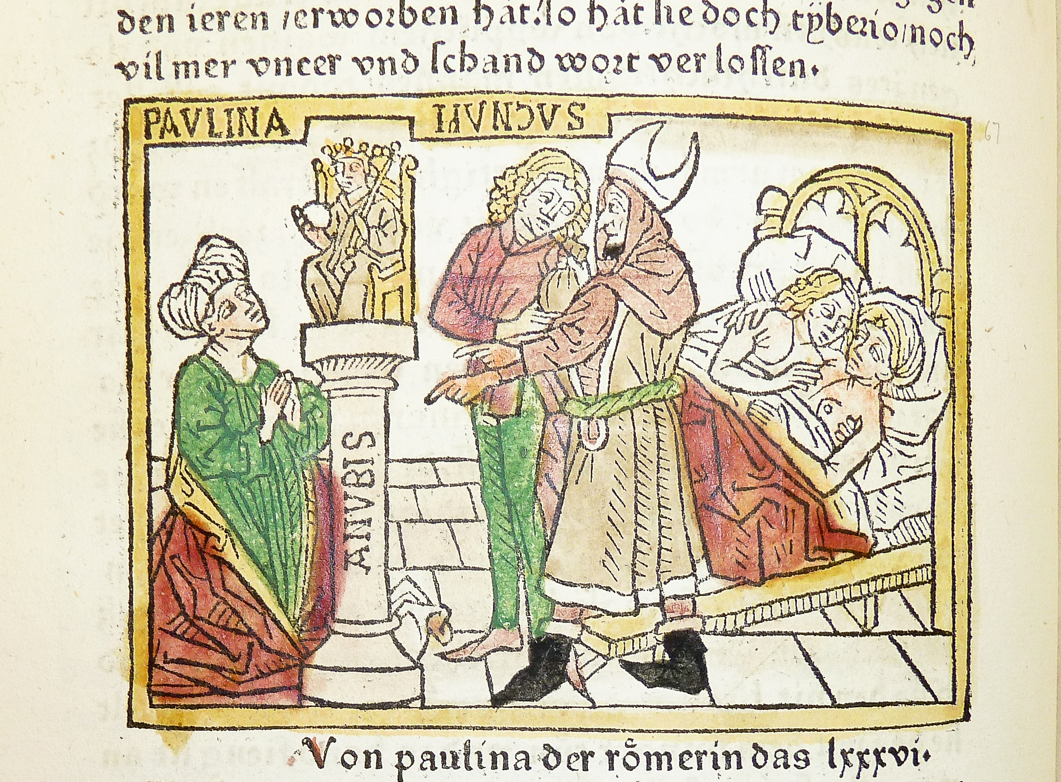 Woodcut illustration (leaf [n]8v, f. cxviij) of the story of Paulina and Decius Mundus from Josephus's Jewish Antiquities, hand-colored in red, green, yellow and black, from an incunable German translation by Heinrich Steinhöwel of Giovanni Boccaccio's De mulieribus claris, printed by Johannes Zainer at Ulm ca. 1474 (cf. ISTC ib00720000). One of 76 woodcut illustrations (1 on leaf [e]8v dated 1473), each 80 x 110 mm., depicting scenes from the life of the women chronicled (for a full list of subjects, cf. W.L. Schreiber, Handbuch der Holz- und Metallschnitte des XV. Jahrhunderts (Nendeln: Kraus Reprints, 1969), no. 3506). "Pour la première moitie le nom se trouve inscrit à côte de la tête de chaque femme, pour le reste il es ajouté entre les deux réglettes. Il n'y en a que trois, qui n'ont qu'un seul trait carré."--Schreiber. Established form: Zainer, Johannes, ‡d d. 1541?. Penn Libraries call number: Inc B-720 All images from this book Penn Libraries catalog record